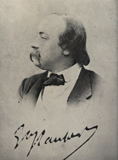 Gustave Flaubert photographed by Giacomo Borelli.